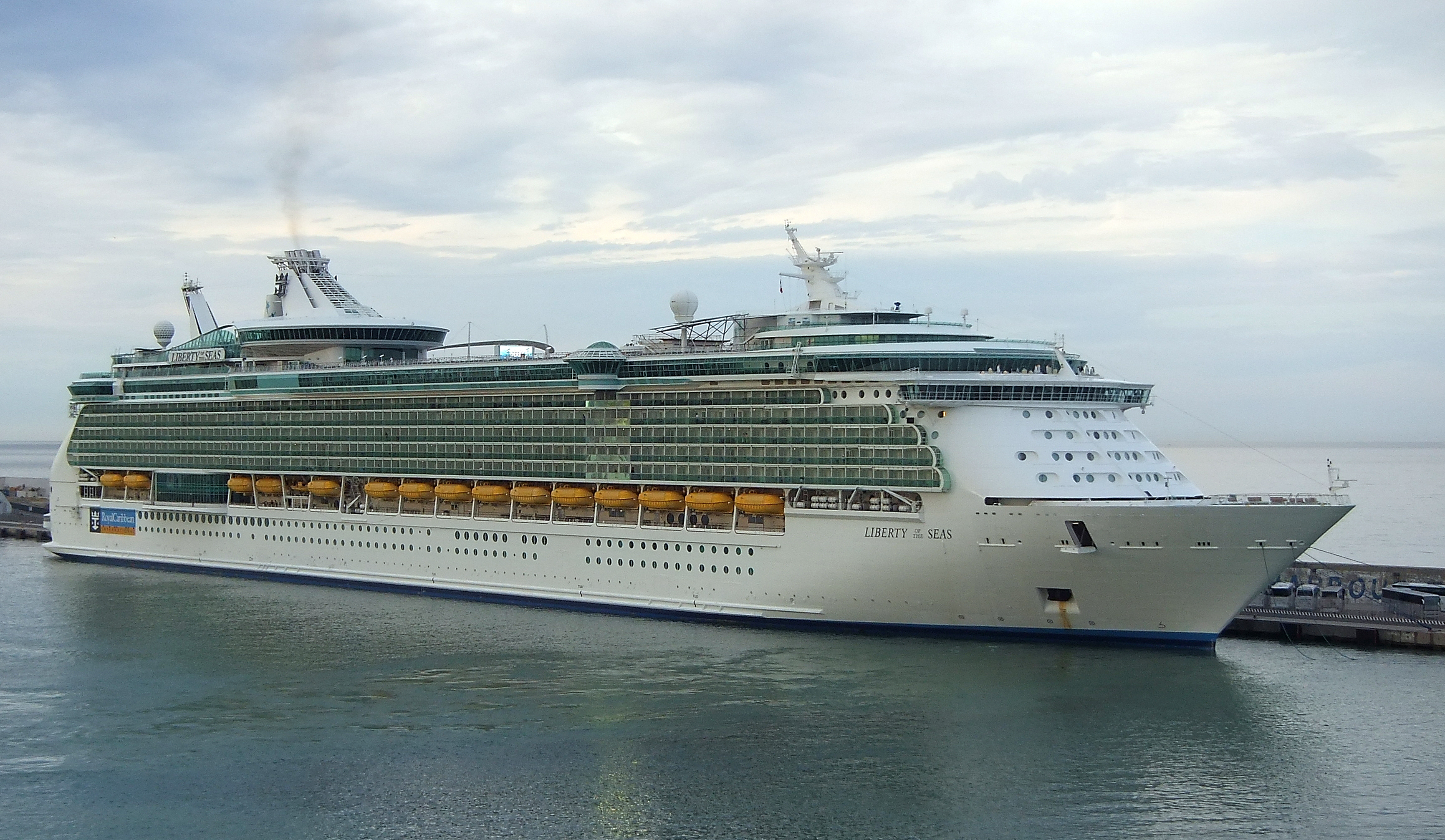 The Liberty of the Seas